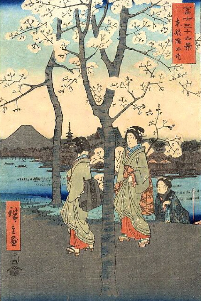 On the Sumida Embankment in the Eastern Capital, two bijin walking under Cherry blossom. A distant view of Fuji san in the background.